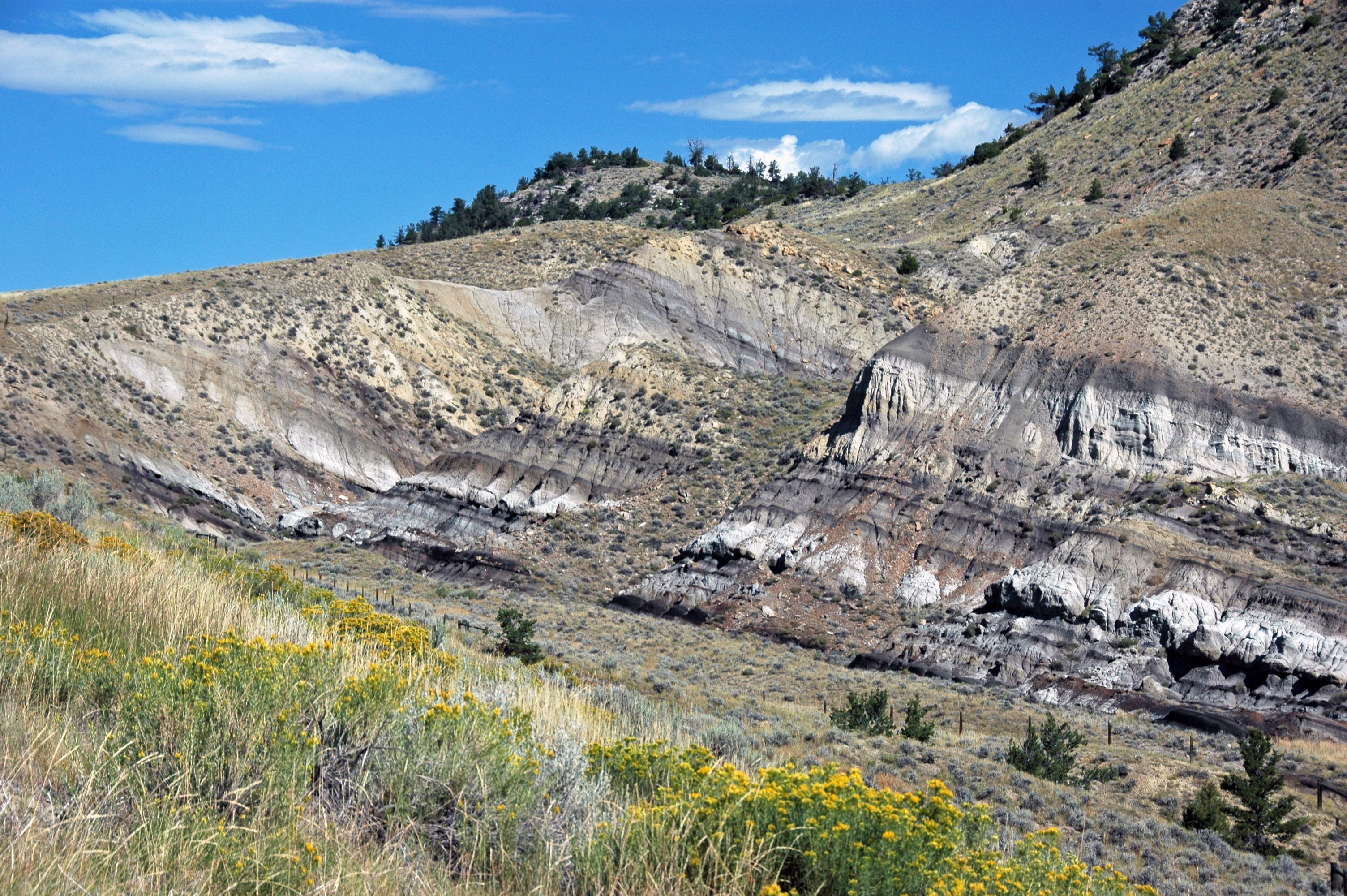 Wyoming's Meeteetse Formation is an Upper Cretaceous unit that consists of mixed siliciclastics and coal. It varies in thickness from a feather's edge (due to erosion) to almost 1,000 feet thick. In the deep subsurface, the Meeteetse reaches about 4,500 feet thick and can have up to 100 different coal horizons, some of which are 20 feet thick. Stratigraphy: Meeteetse Formation, Upper Cretaceous Locality: outcrop on the northeastern side of Route 120, southeast of the town of Meeteetse, southeastern Park County, northwestern Wyoming, USA Some info. from: Hickling et al. (1989) - Geology of the Upper Cretaceous and Tertiary coal-bearing rocks in the western part of the Wind River Basin, Wyoming. United States Geological Survey Bulletin 1813. 128 pp. 1 pl.